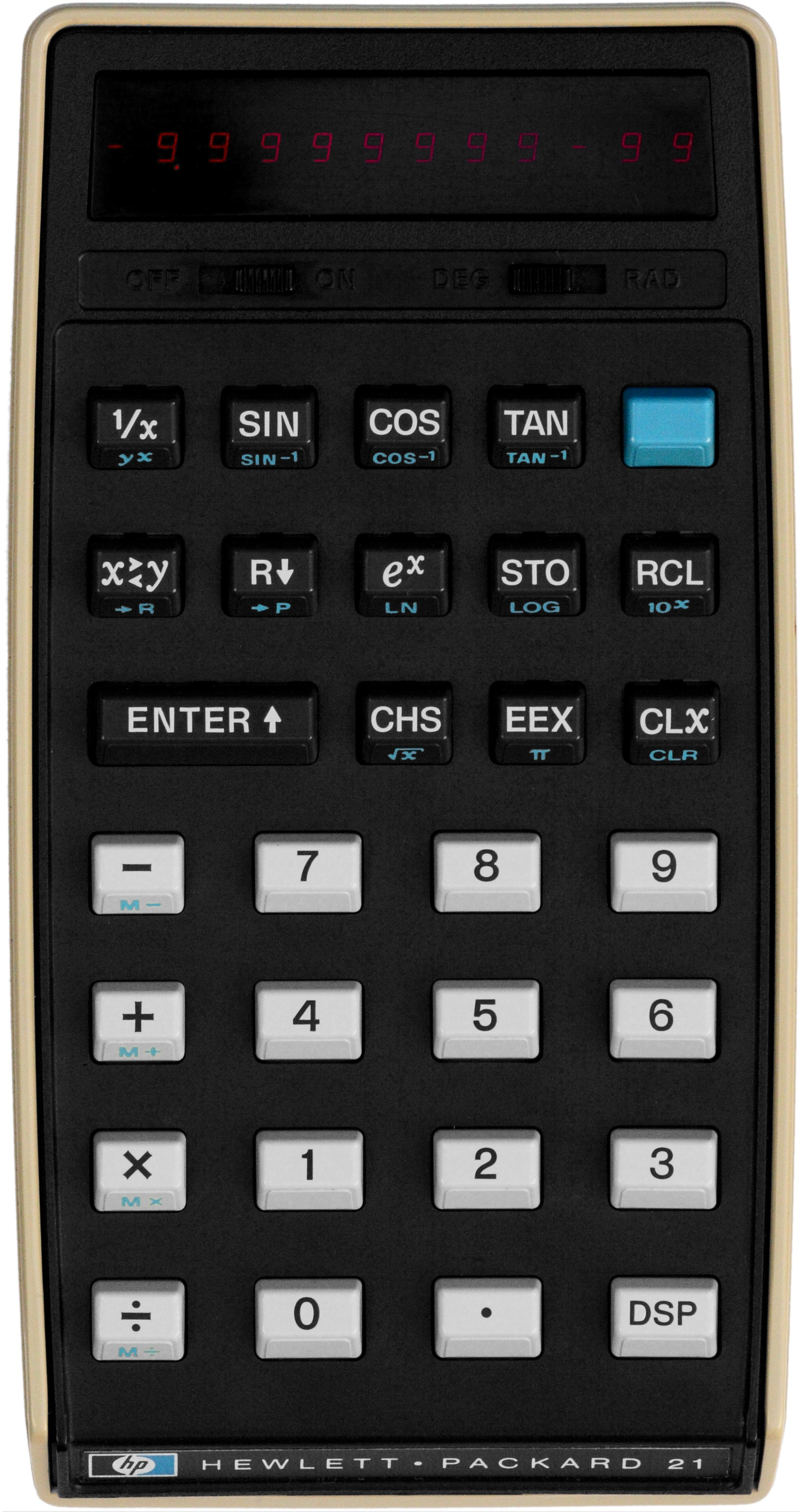 Pocket calculator HP-21 of the Woodstock series of Hewlett-Packard, non-programmable